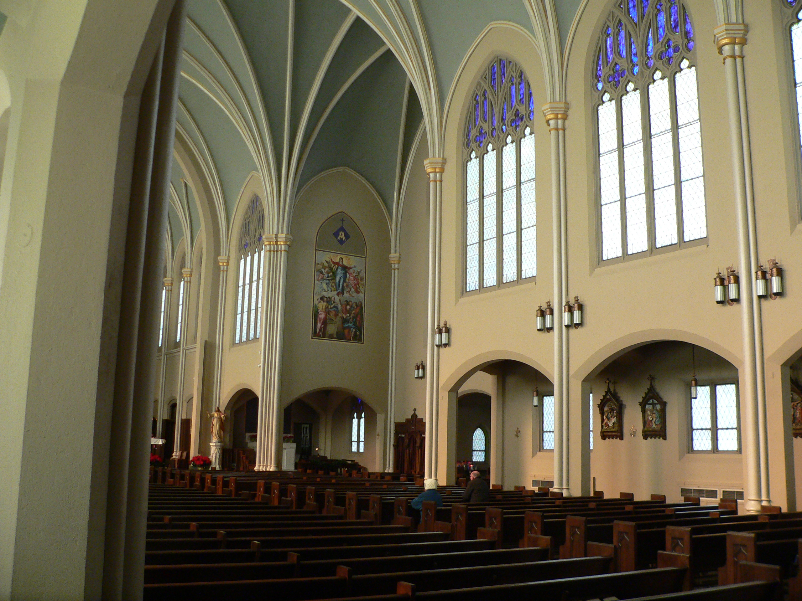 Interior of Cathedral of the Nativity of the Blessed Virgin Mary in Grand Island, Nebraska. The cathedral was designed in Late Gothic Revival style by architects Brinkman & Hagan; the cornerstone was laid in 1926. The building is listed in the National Register of Historic Places.